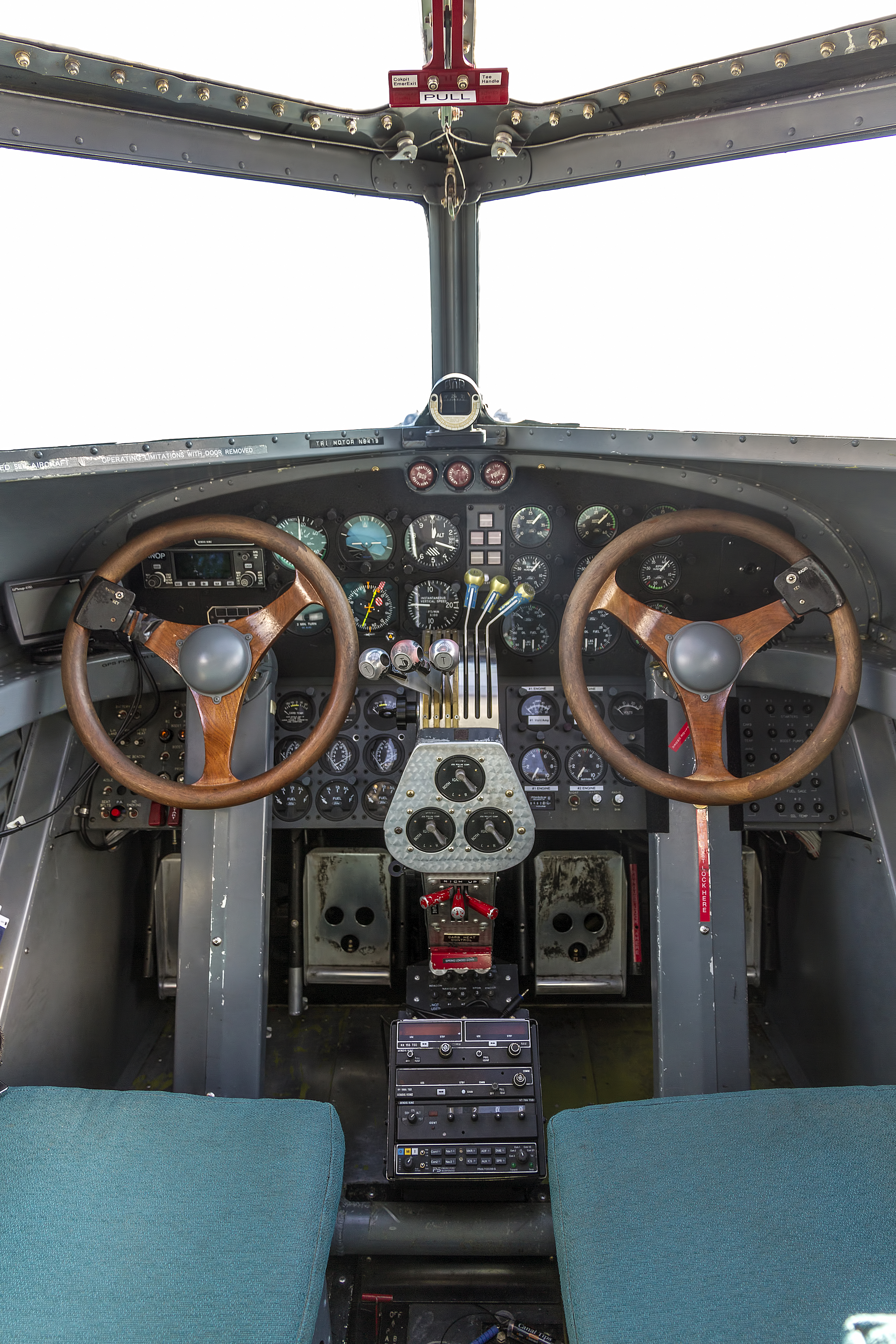 The cockpit of 5-AT Ford Trimotor NC8419